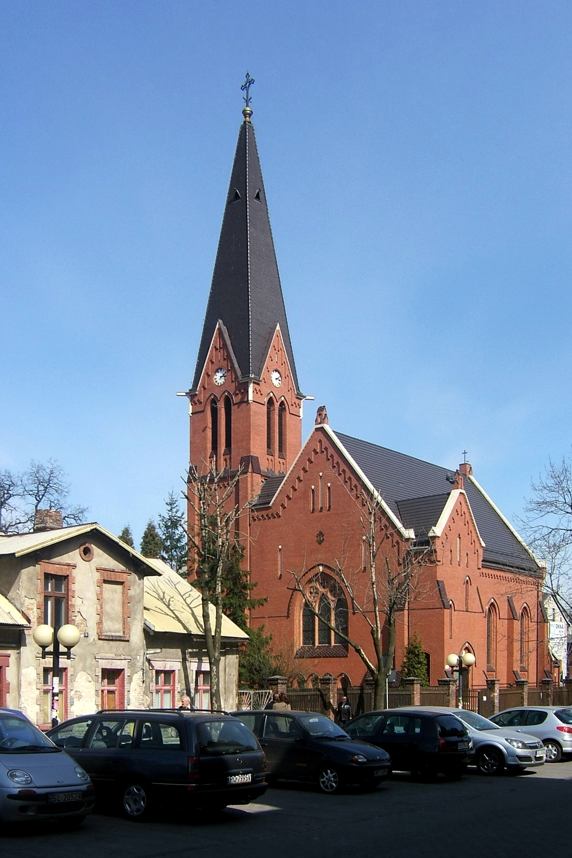 Protestant church in Wirek, a district of Ruda Śląska.